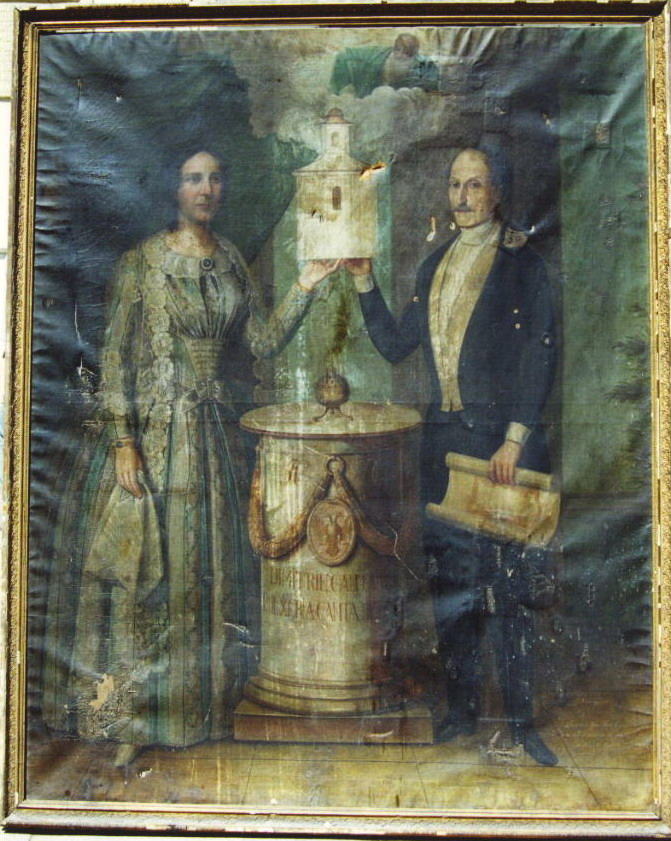 Painting of Talpalari Church's ctitors: Dimitrie Cantacuzino-Pașcanu and his wife, Pulcheria